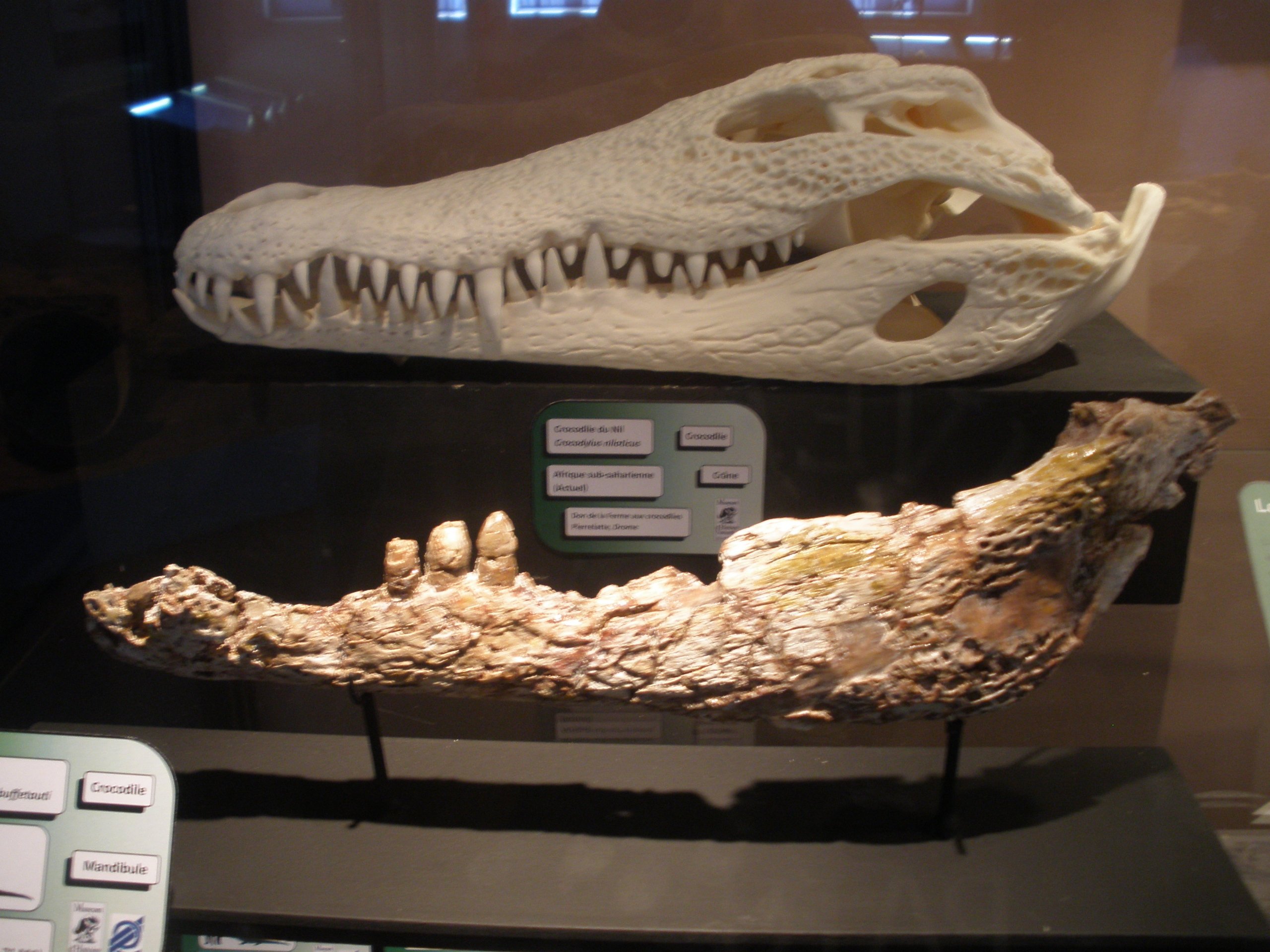 fossil of Musturzabalsuchus buffetauti, an extinct crocodile